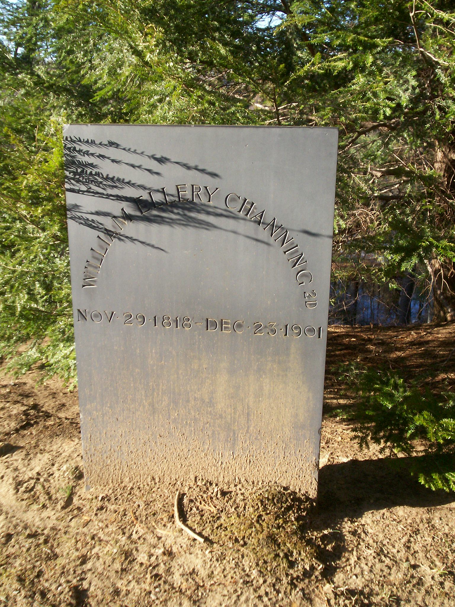 Grave of William Ellery Channing, Jr. in Sleepy Hollow Cemetery in Concord, Massachusetts